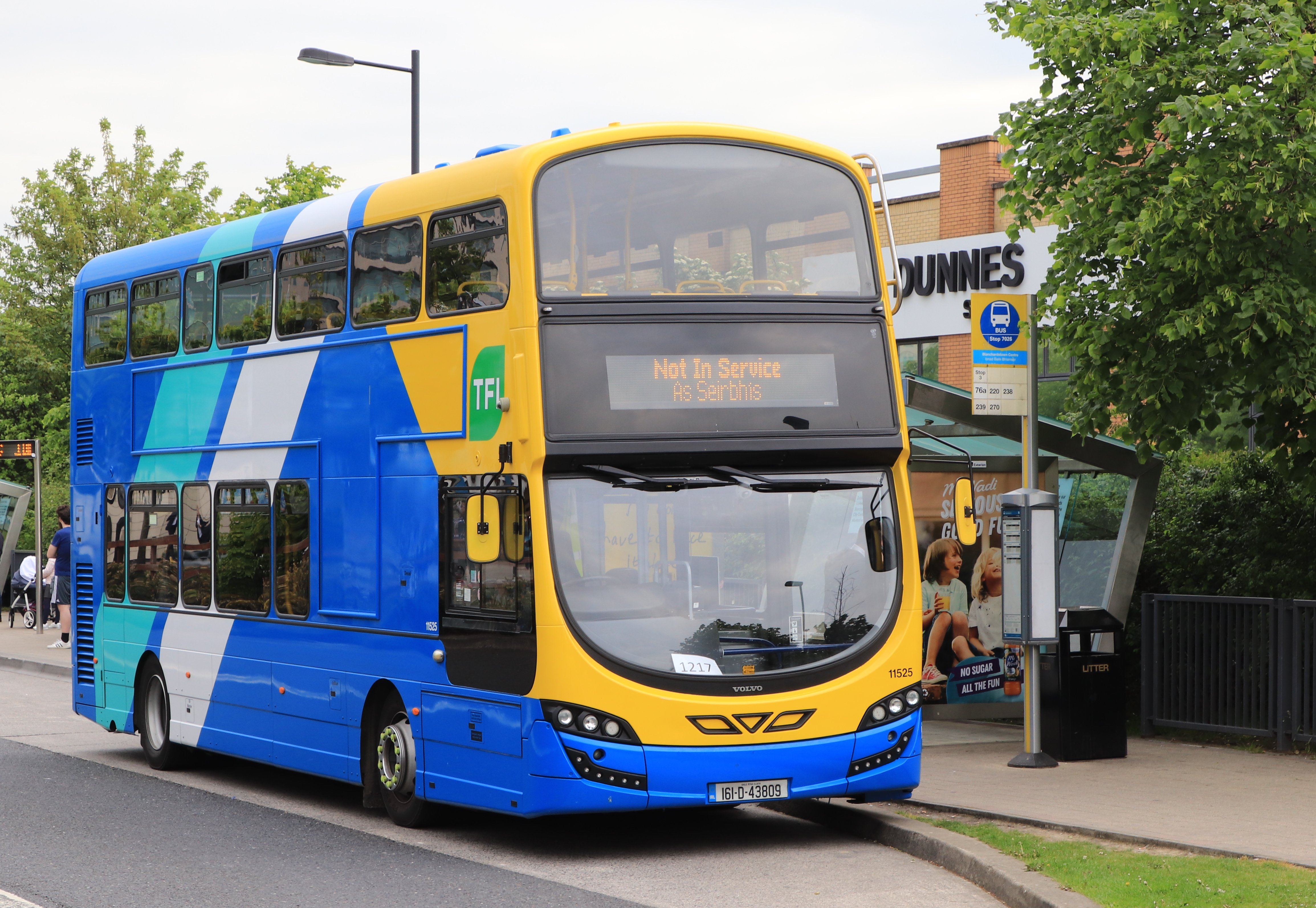 Volvo B5TL / Wright Gemini H45/22D New to Dublin Bus as SG171 Blanchardstown Shopping Centre